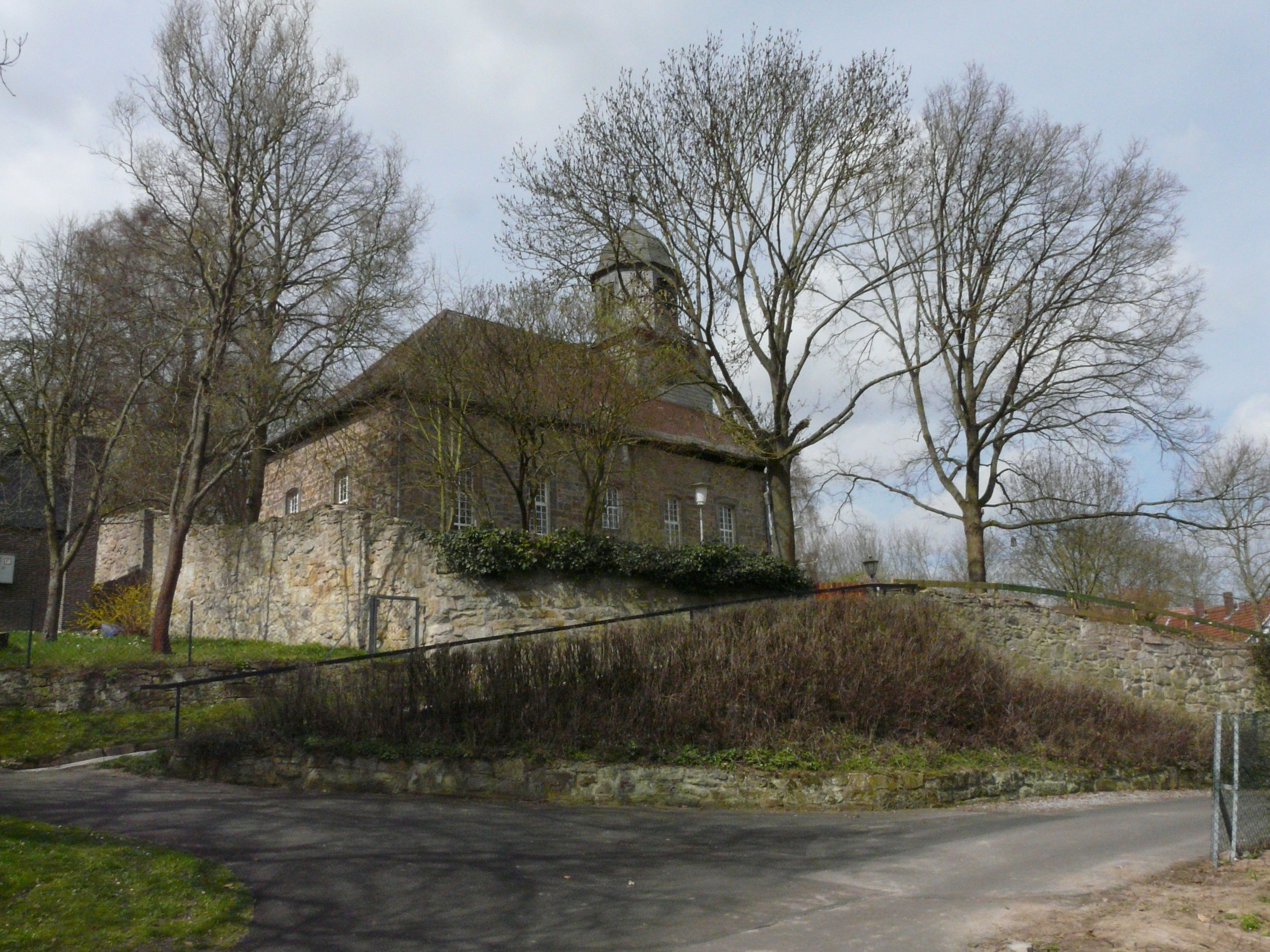 Church in Baunatal - Kichbauna.